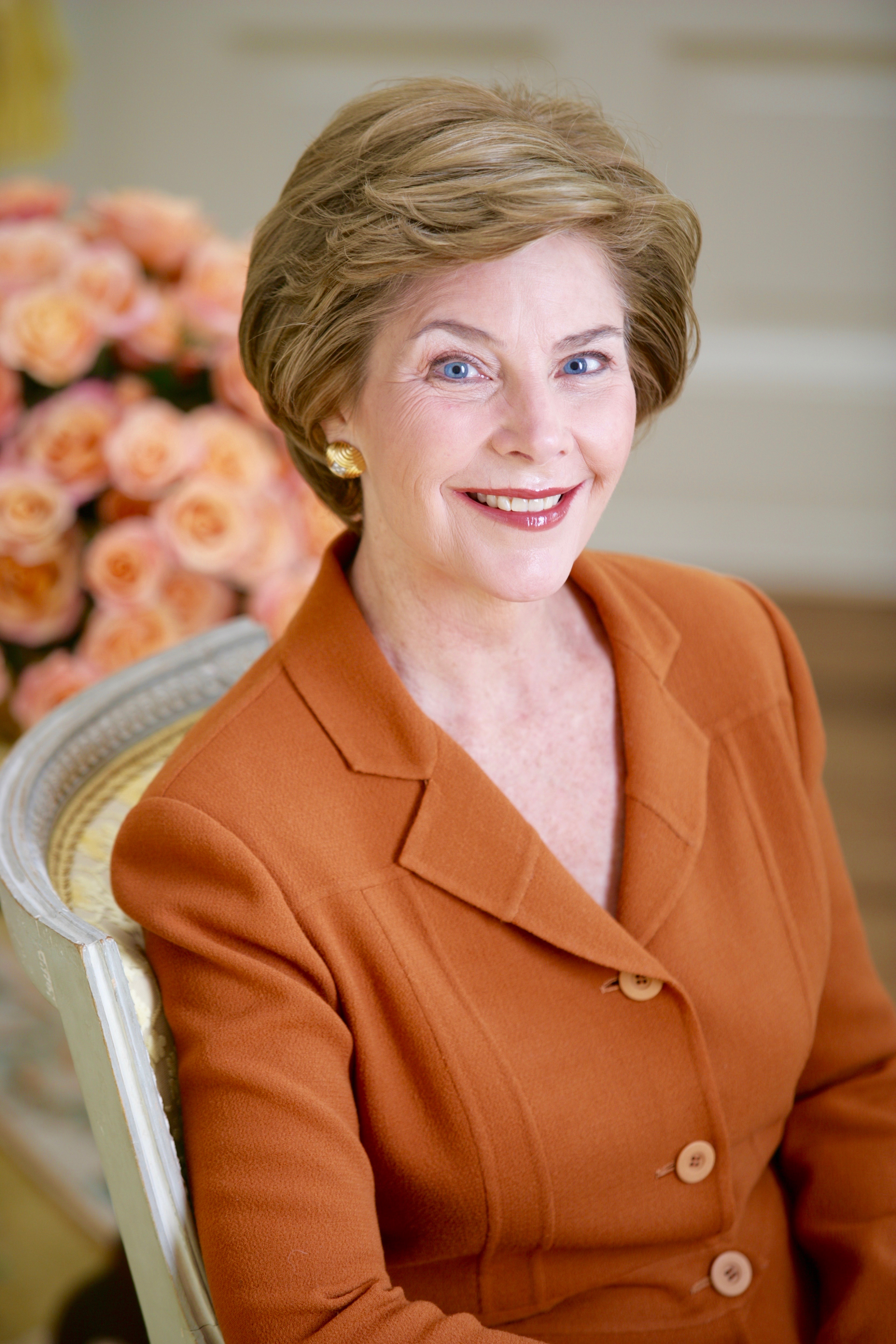 Laura Bush, First Lady of the United States from October 2005. White House photo by Krisanne Johnson.